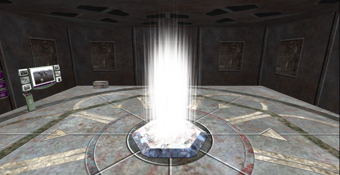 This is an asgard transporter, which is the name for the teleportation device used by the asgards, an extraterrestrial species in the fictional universe of Stargate. The picture is photographed in the virtual world of Second Life 21 October 2013.